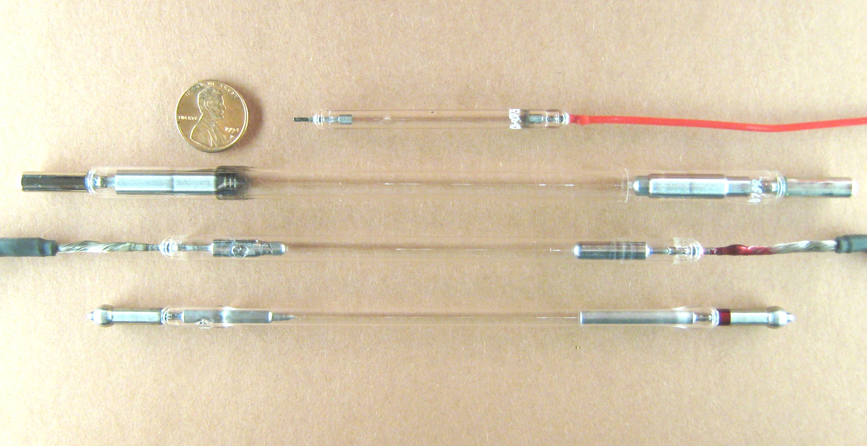 The first three from the top are xenon flashtubes. The bottom one is a krypton arc lamp, which has a smaller diameter, higher pressure, thinner glass (for better cooling), and a cathode with a sharp tip. The anodes are on the right hand side, and the cathodes are on the left. The second flashtube is designed for water cooling, and portions of the glass can be seen that have been shrunken around the electrodes (also for cooling). This flashtube shows signs of sputter around its cathode, appearing as dark deposits of metal on the glass. A penny is shown for size.